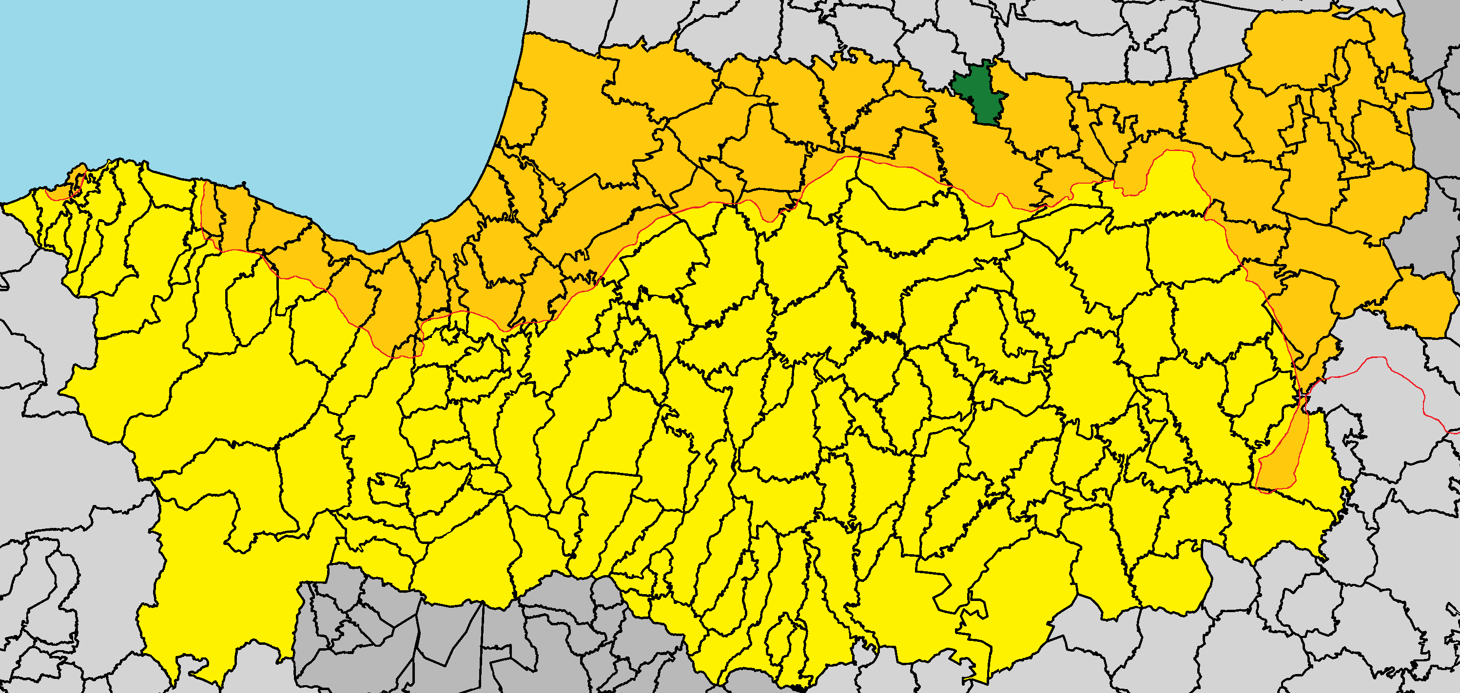 Kanlıköy in Nicosia District (de jure).